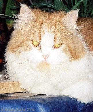 Photo of my cat Muca, summer 2004.